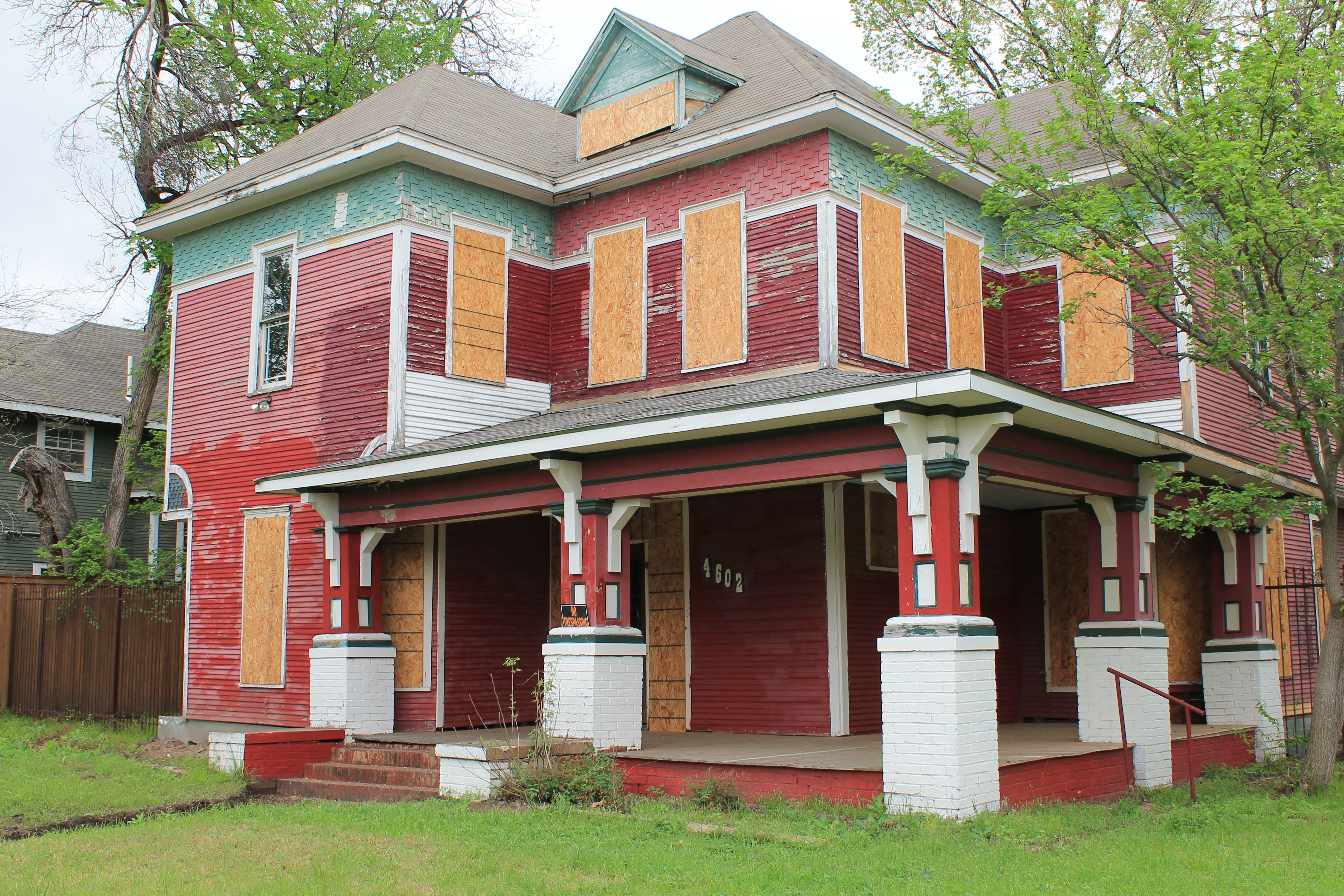 Thomas Shiels House